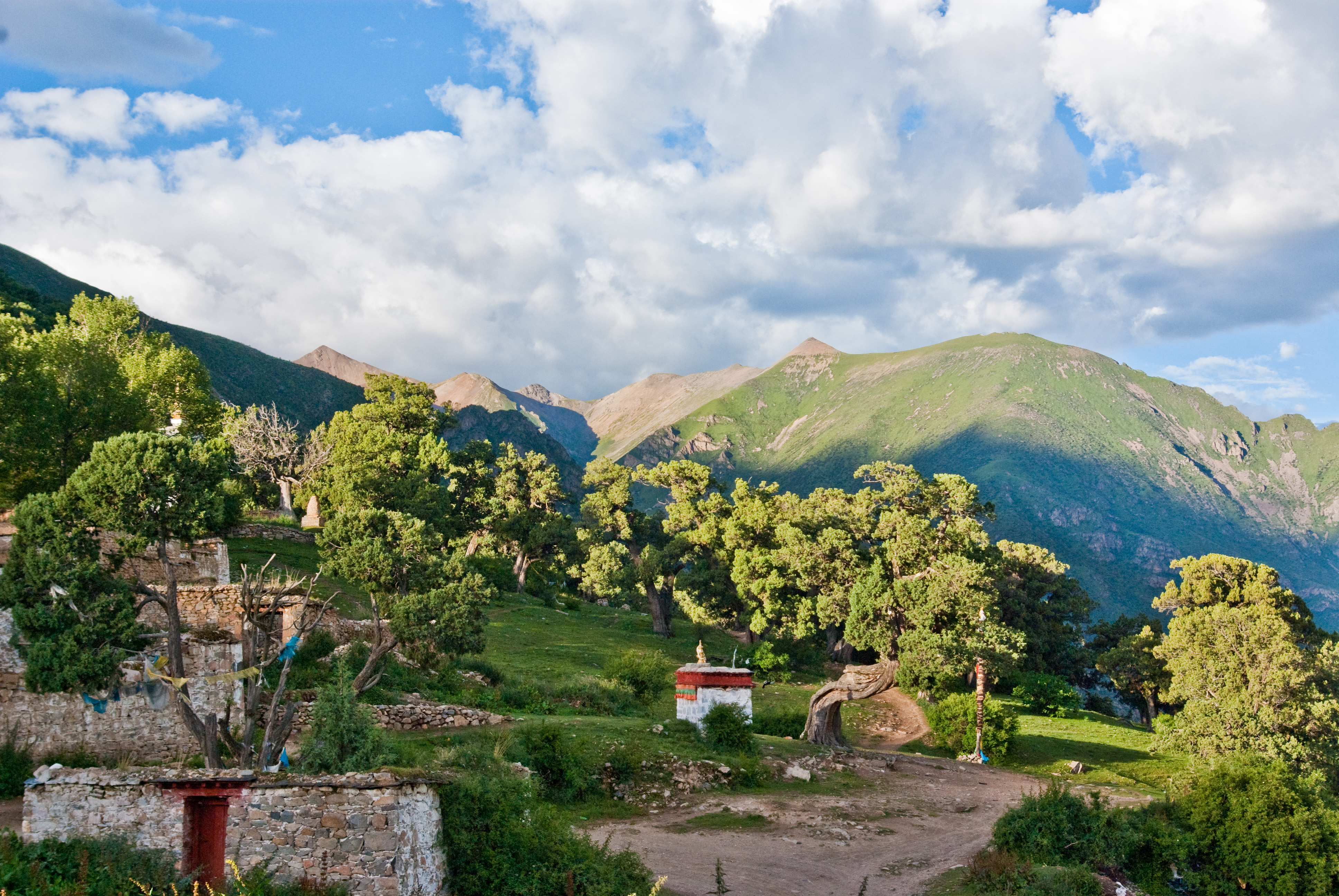 Reting monastery